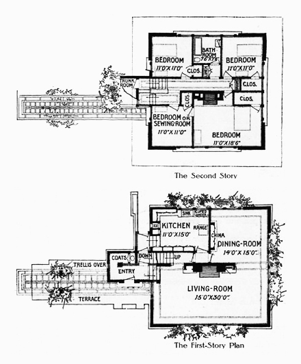 Floor plans for "A Fireproof House for $5000." Originally published by Frank lloyd Wright in the Ladie's Home Journal in 1907.